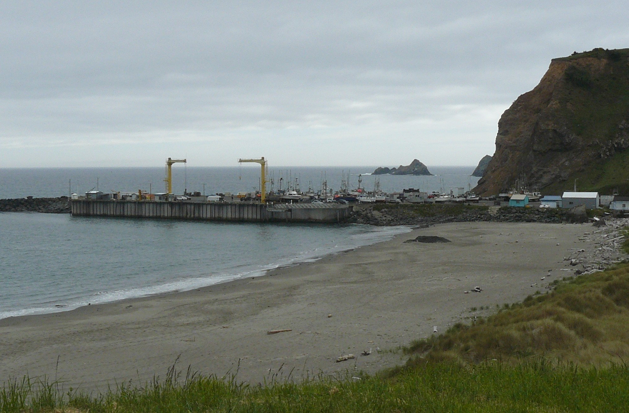 View on the port of Port Orford. Ships are hoisted out of the water and parked on dollies.